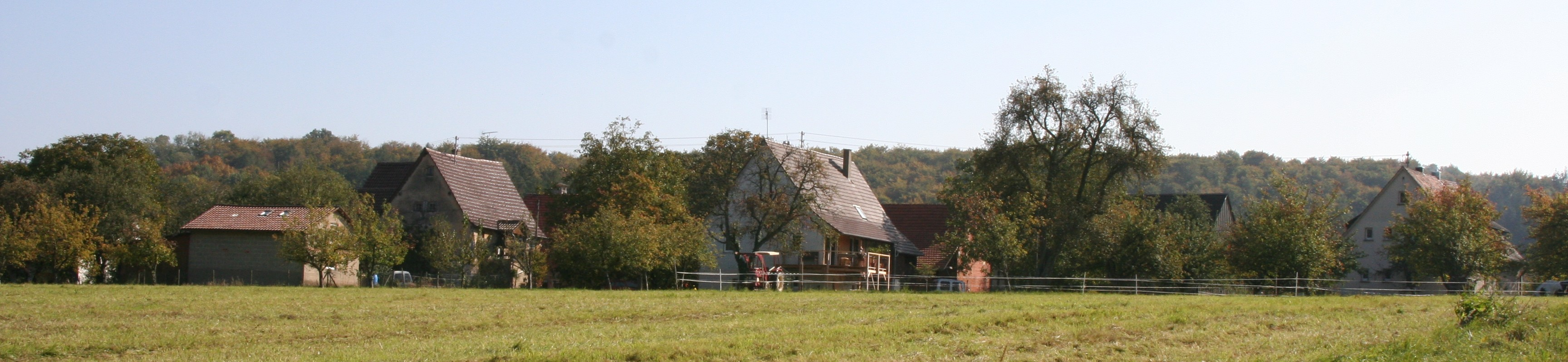 Farnersberg, a hamlet belonging to Beilstein, photographed from the North-West